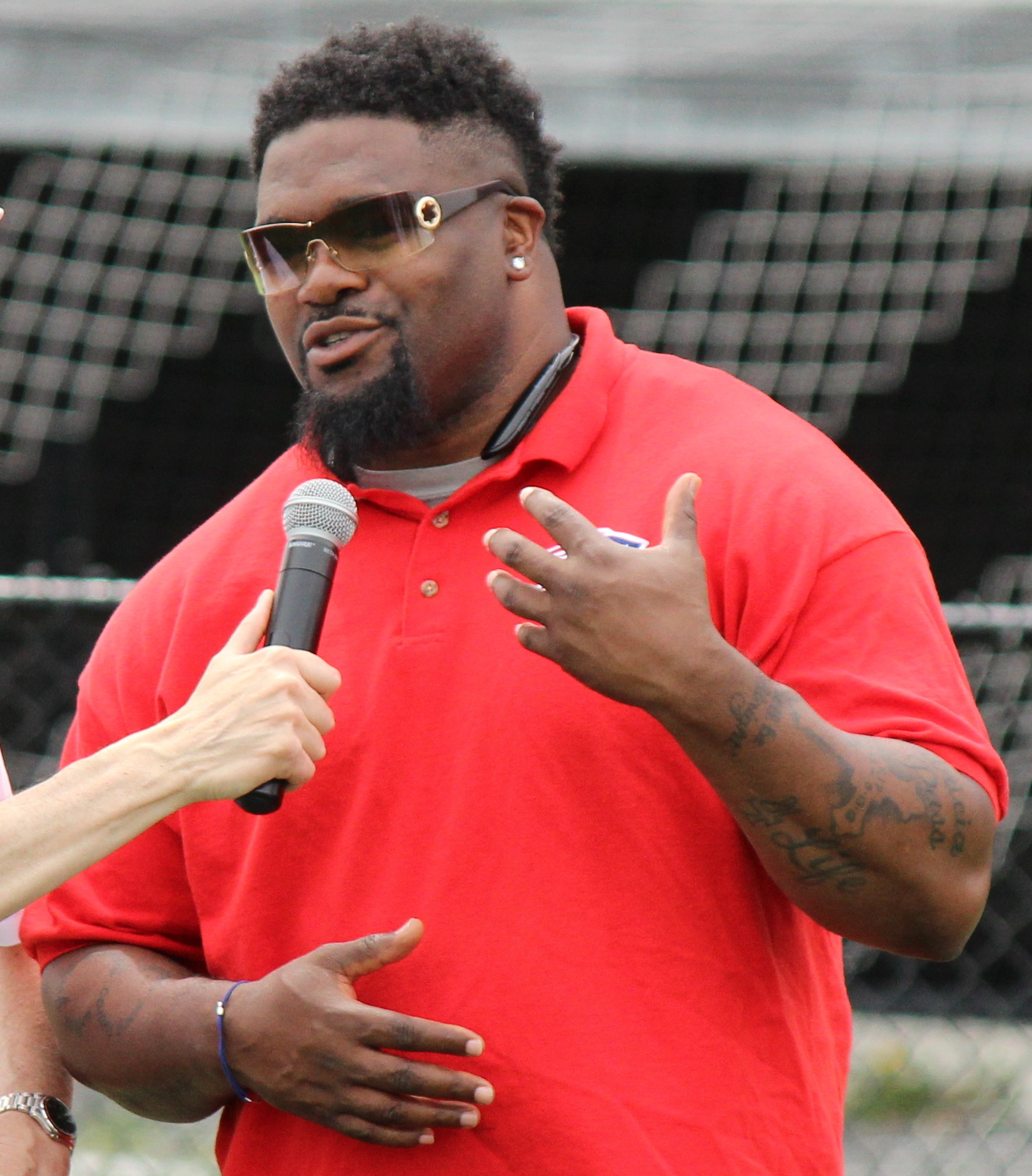 Chuck Wilson interviews Patrick Pass in Lowell, Massachusetts in 2016.